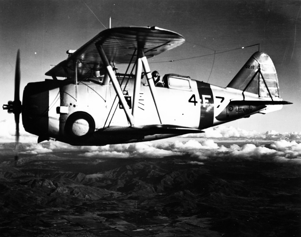 PictionID:42766297 - Title:Grumman F3F-1 0232 VF-4 4-F-7 13Jan39 NARA 80-G-414446 [via RJF] - Catalog:17_000124 - Filename:17_000124.tif - - --------Image from the René Francillon Photo Archive. Having had his interest in aviation sparked by being at the receiving end of B-24s bombing occupied France when he was 7-yr old, René Francillon turned aviation into both his vocation and avocation. Most of his professional career was in the United States, working for major aircraft manufacturers and airport planning/design companies. All along, he kept developing a second career as an aviation historian, an activity that led him to author more than 50 books and 400 articles published in the United States, the United Kingdom, France, and elsewhere. Far from “hanging on his spurs,” he plans to remain active as an author well into his eighties.-------PLEASE TAG this image with any information you know about it, so that we can permanently store this data with the original image file in our Digital Asset Management System.--------------SOURCE INSTITUTION: San Diego Air and Space Museum Archive